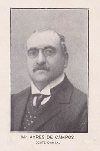 Portrait of João Maria Correia Ayres de Campos, 1st Count of Ameal, published in the descriptive catalogue 'Collections Comte de Ameal' (Coimbra, 1921)